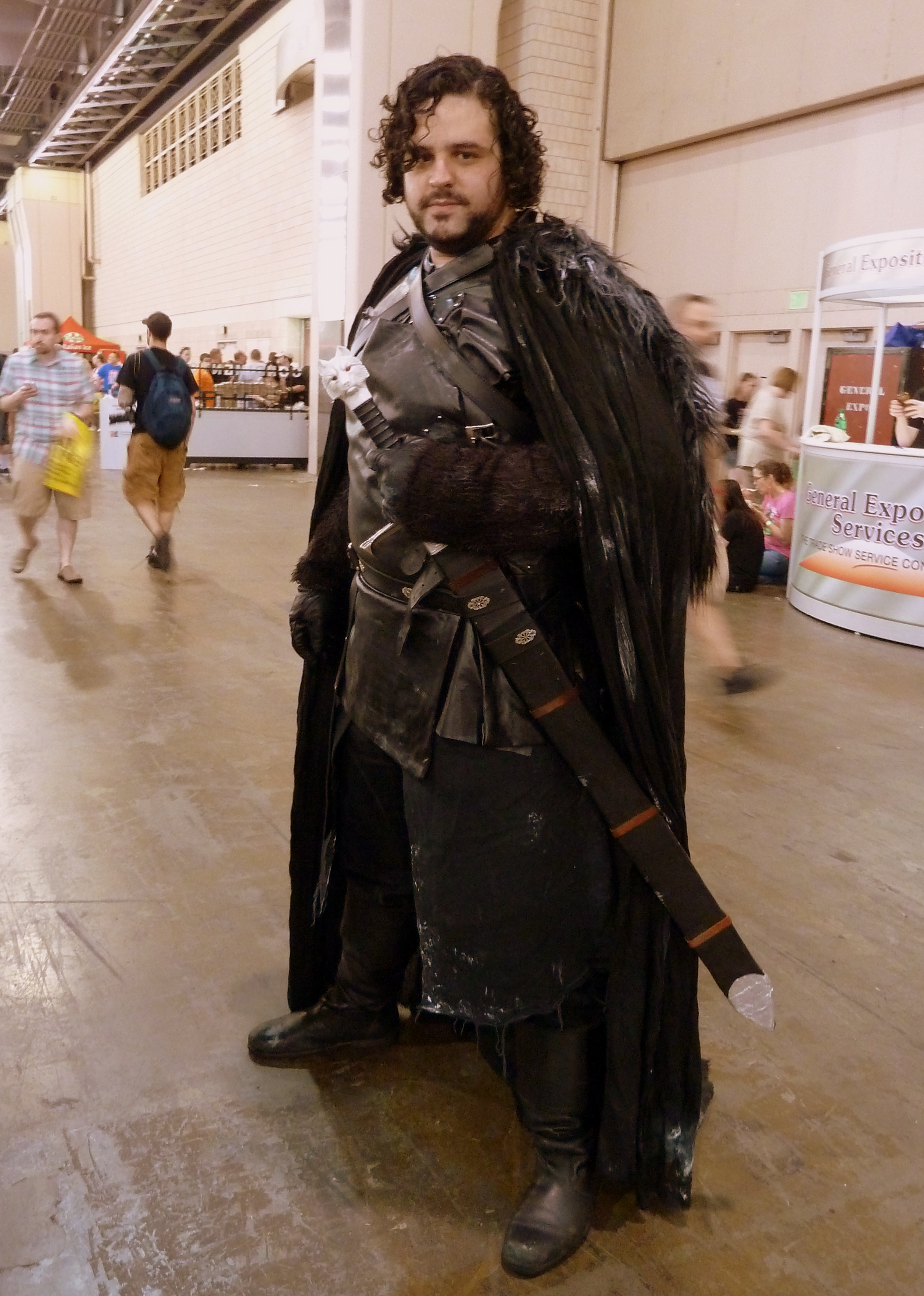 Cosplay at Wizard World Philadelphia 2013